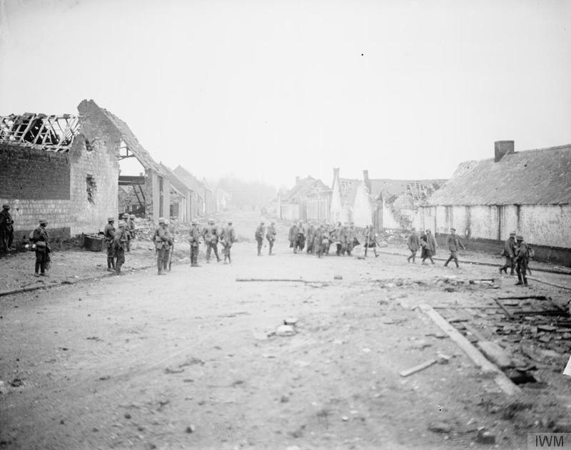 The Battle of Cambrai, November-december 1917 Men of the 11th Battalion, Leicestershire Regiment (6th Division) with German prisoners in Ribecourt, less than two hours after the village was captured, 20 November 1917.